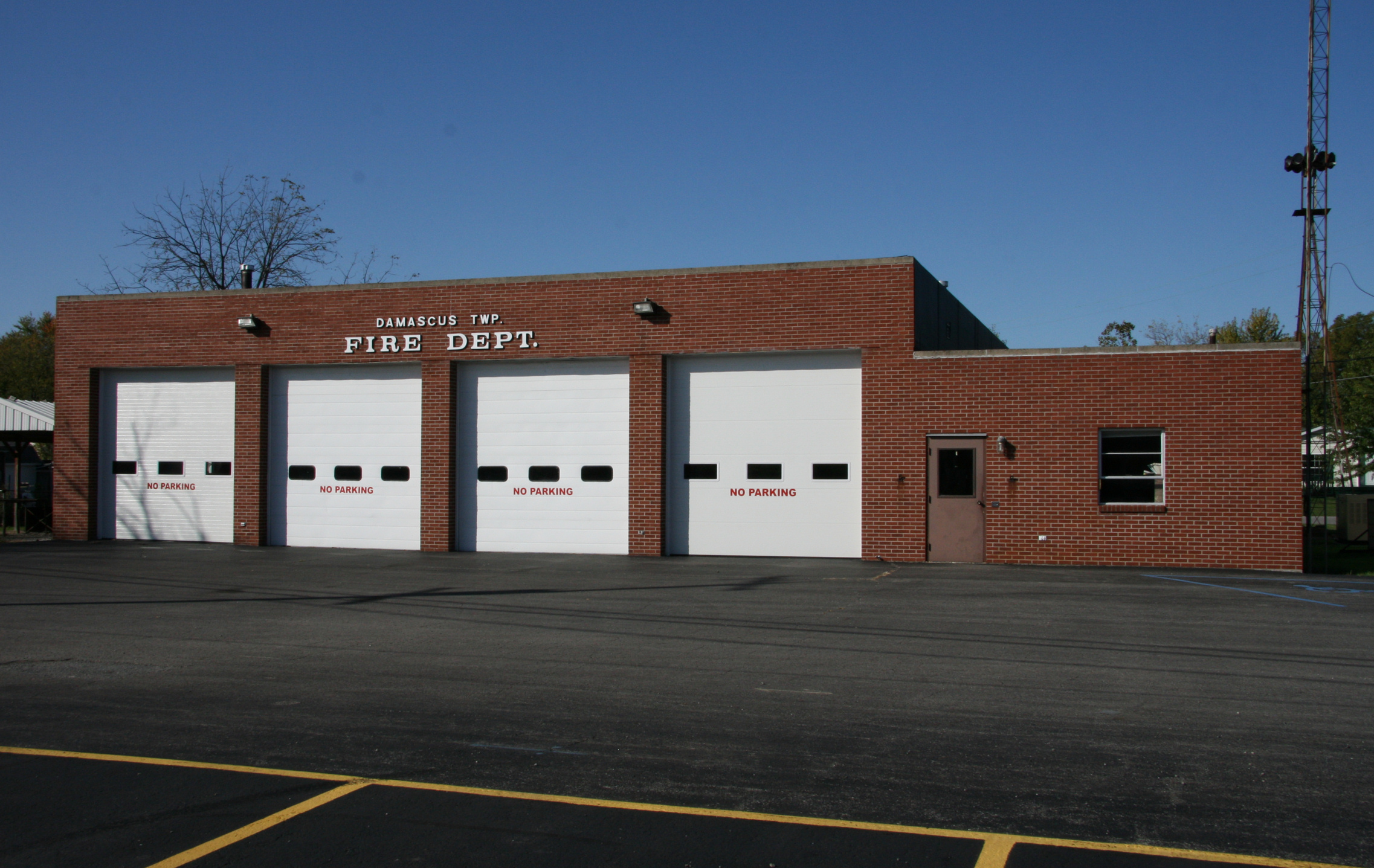 Damascus Township fire department located in McClure, Ohio